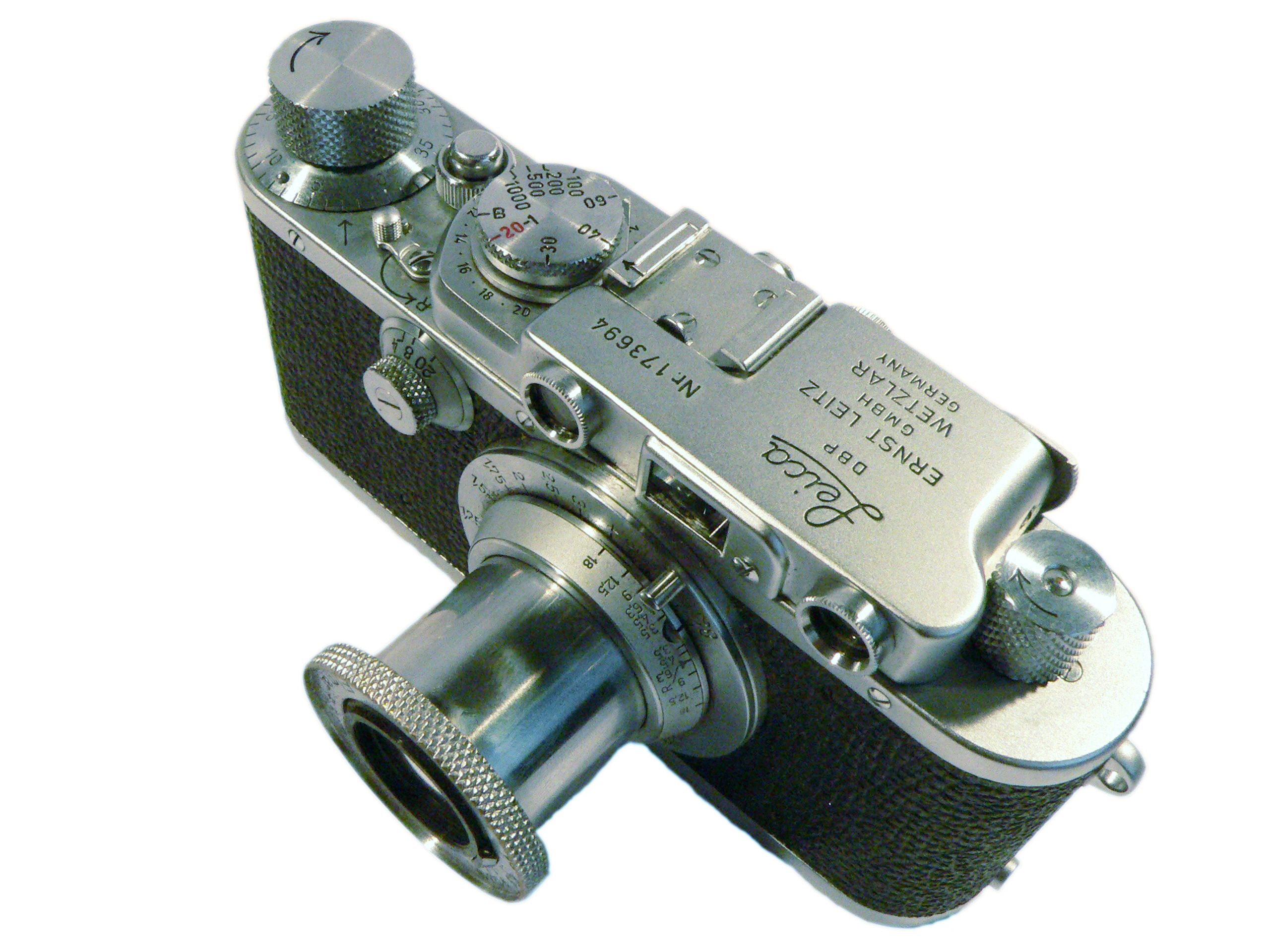 Leica III of 1935 [1]